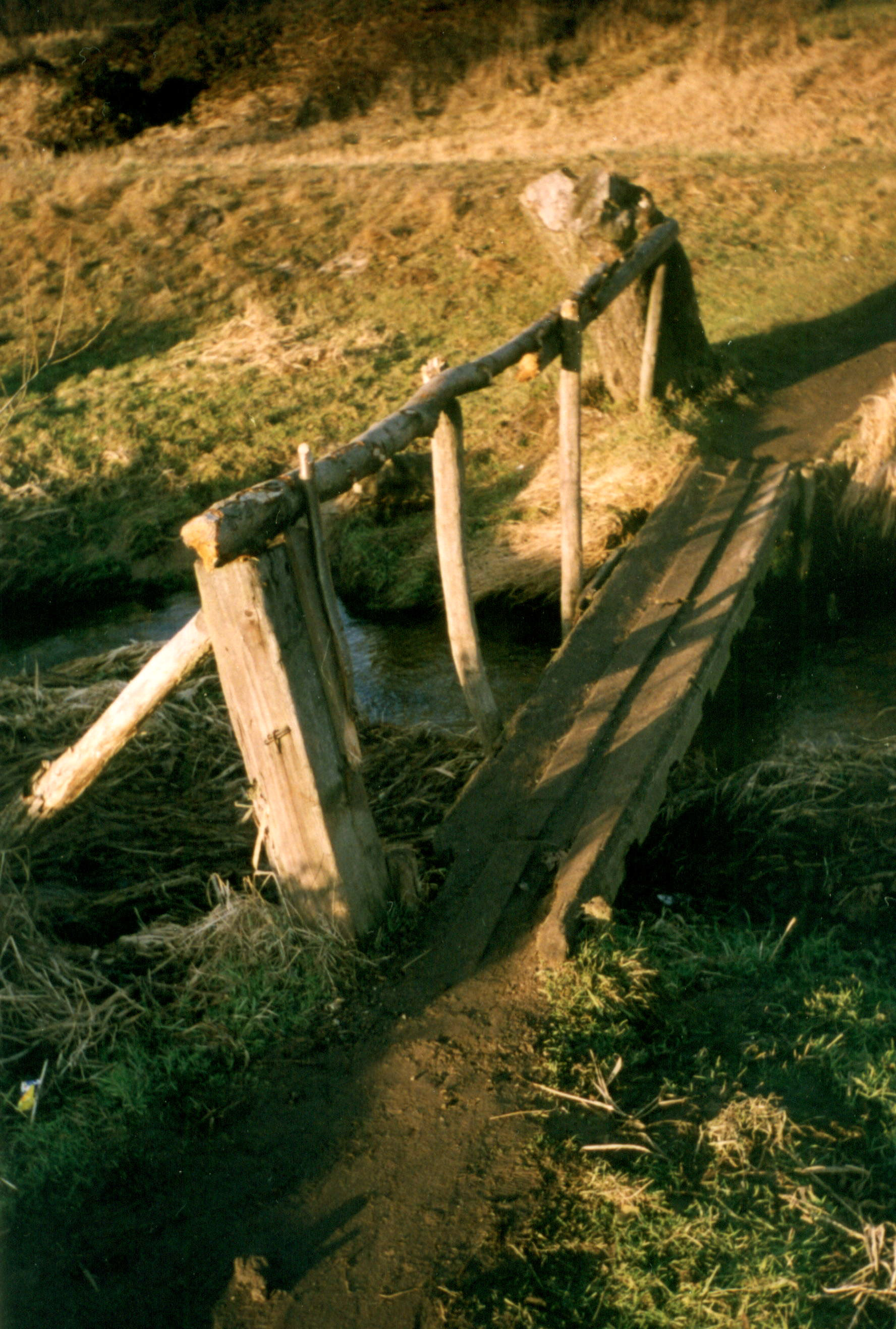 Small wooden foot bridge in Boronów, Poland